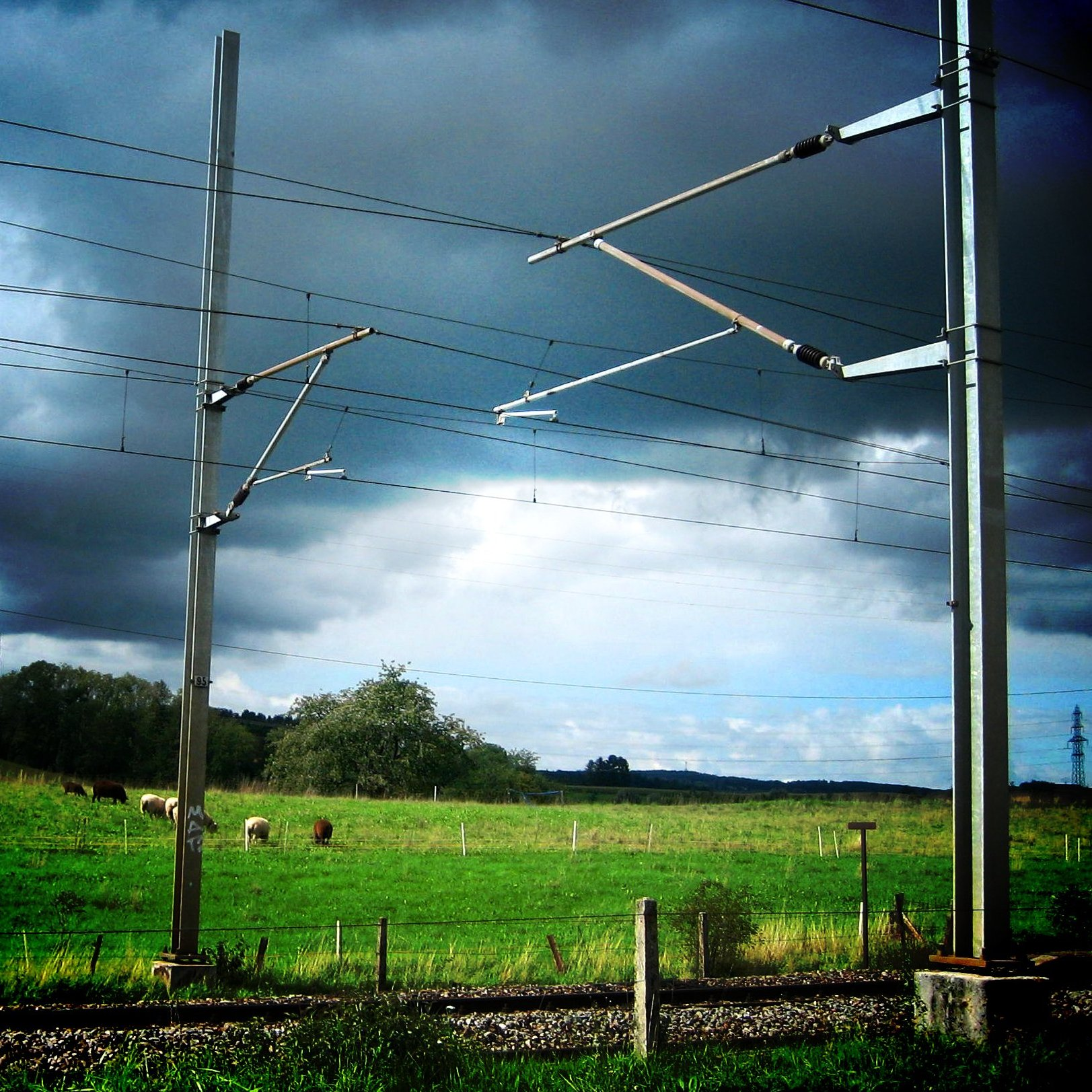 Swiss Federal Railways overhead lines, near Puidoux, Canton of Vaud